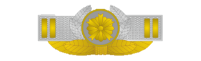 Brooch rank insigna for inspector of japanese police